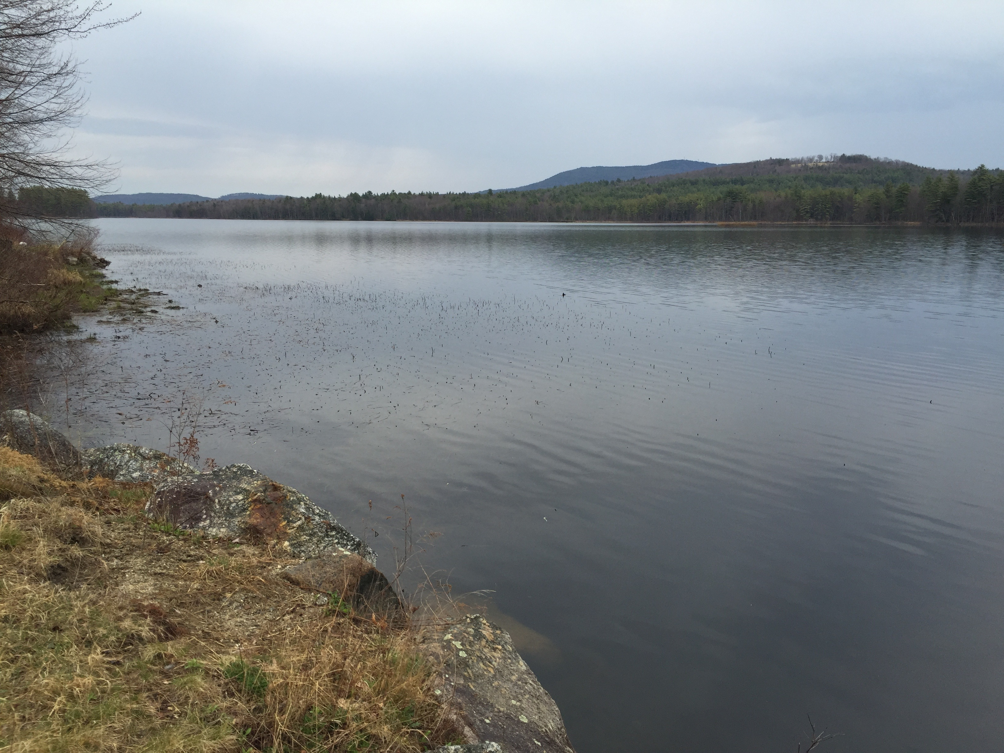 Powder Mill Pond in Hillsborough County, United States. View from South Elmwood Road, Hancock.